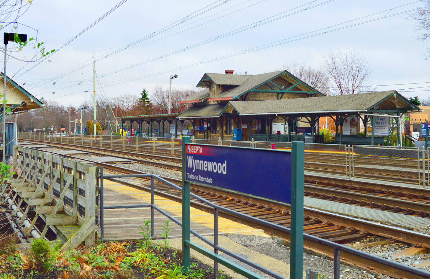 Wynnewood, PA Southeast Pennsylvania Transportation Authority (SEPTA) commuter rail station